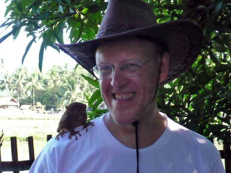 Philippine tarsier (Carlito syrichta) on the shoulder of human (Homo sapiens)